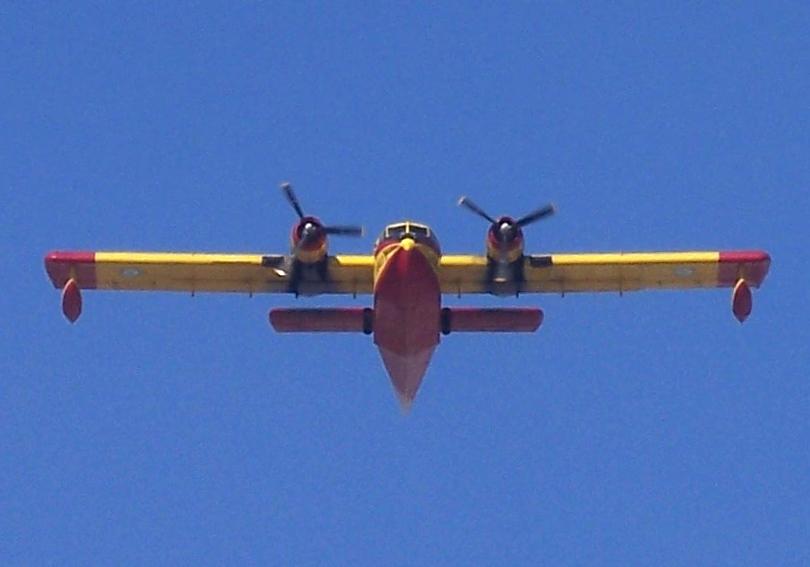 A Canadair CL-215 of the Hellenic Air Force in action over Athens.